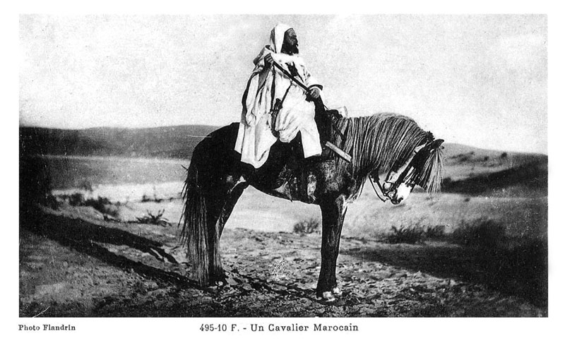 Historical photographs of Moroccan men.